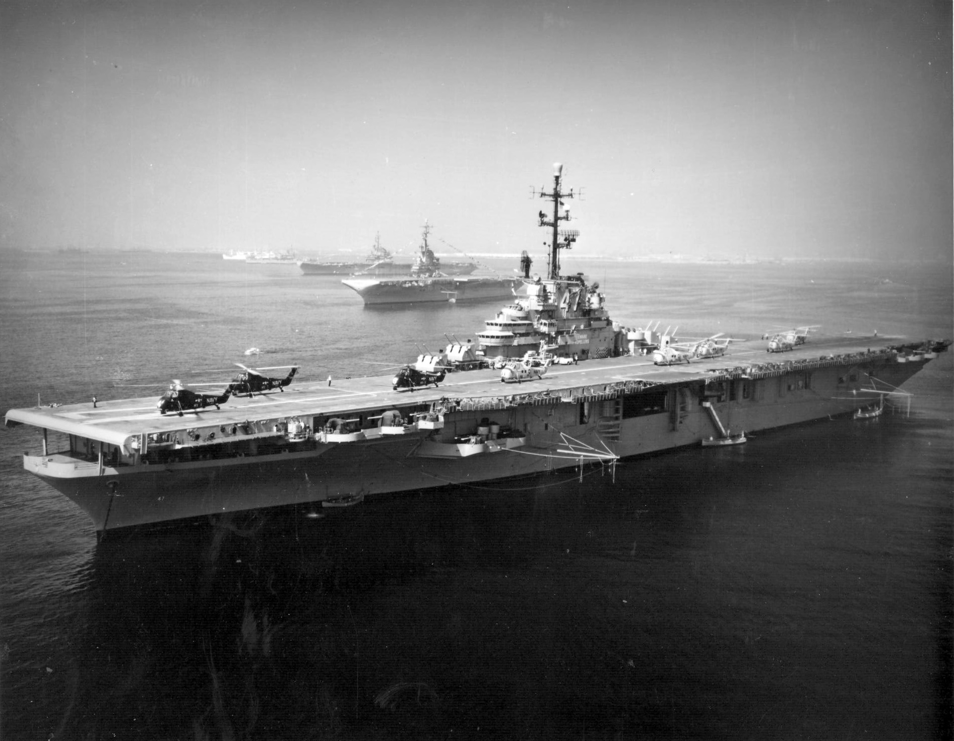 The U.S. Navy aircraft carrier USS Philippine Sea (CVS-47) during a Fleet Review at Long Beach, California (USA), on the occasion of Navy Day. The carriers USS Bennington (CVA-20) and USS Shangri-La (CVA-38) are also anchored.